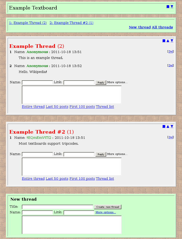 Using the public domain software Kareha, I made some threads and posts on a textboard to display various features.